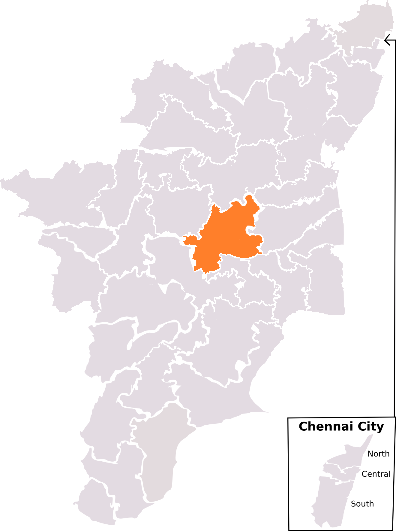 Lok Sabha Election map for Tamil Nadu. Map is based on ECI drawn map. Results are based on ECI website.